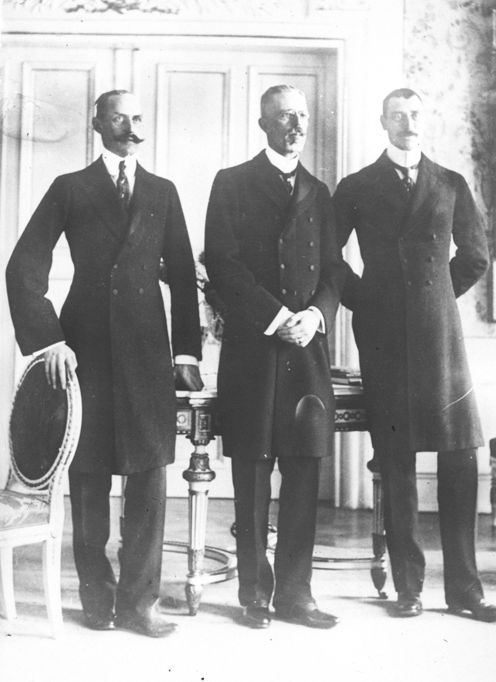 From left to right: King Haakon VII of Norway, king Gustav V of Sweden, and king Christian X of Denmark. From the meeting of the three Scandinavian kings at Malmö, Sweden in December, 1914.